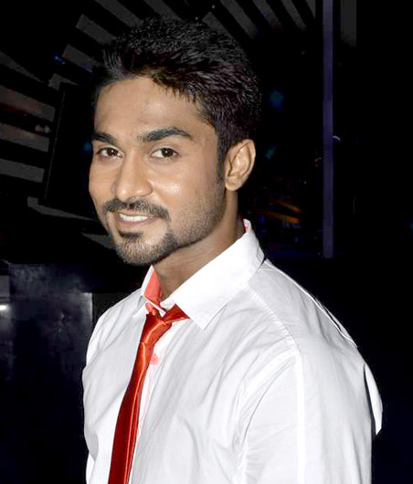 Choreographer Salman Yusuff Khan on sets of Jhalak Dikhhla Jaa 6